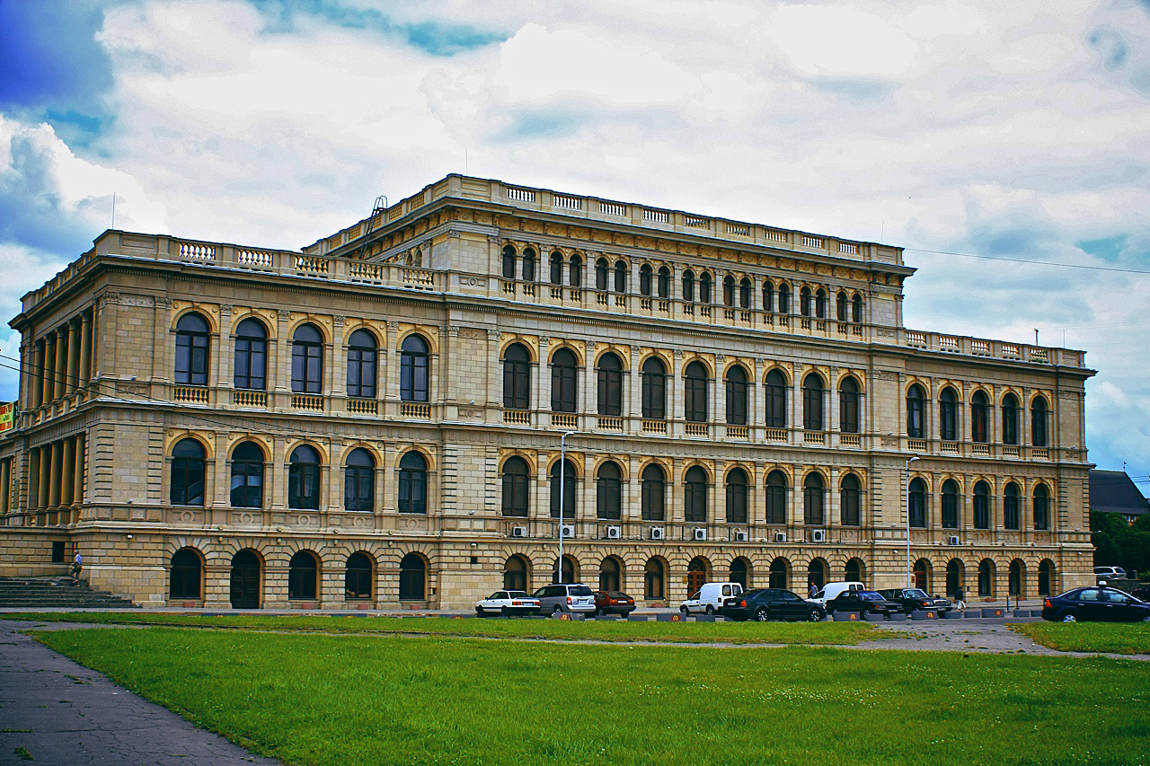 Königsberg Exchange